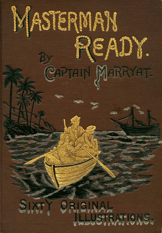 Cover of the novel 1841 Masterman Ready by Frederick Marryat. Published: London & New York; George Bell & Sons, 1886.